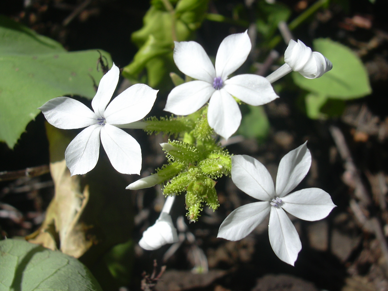 Plumbago zeylanica (flowers). Location: Maui, Puu o Kali